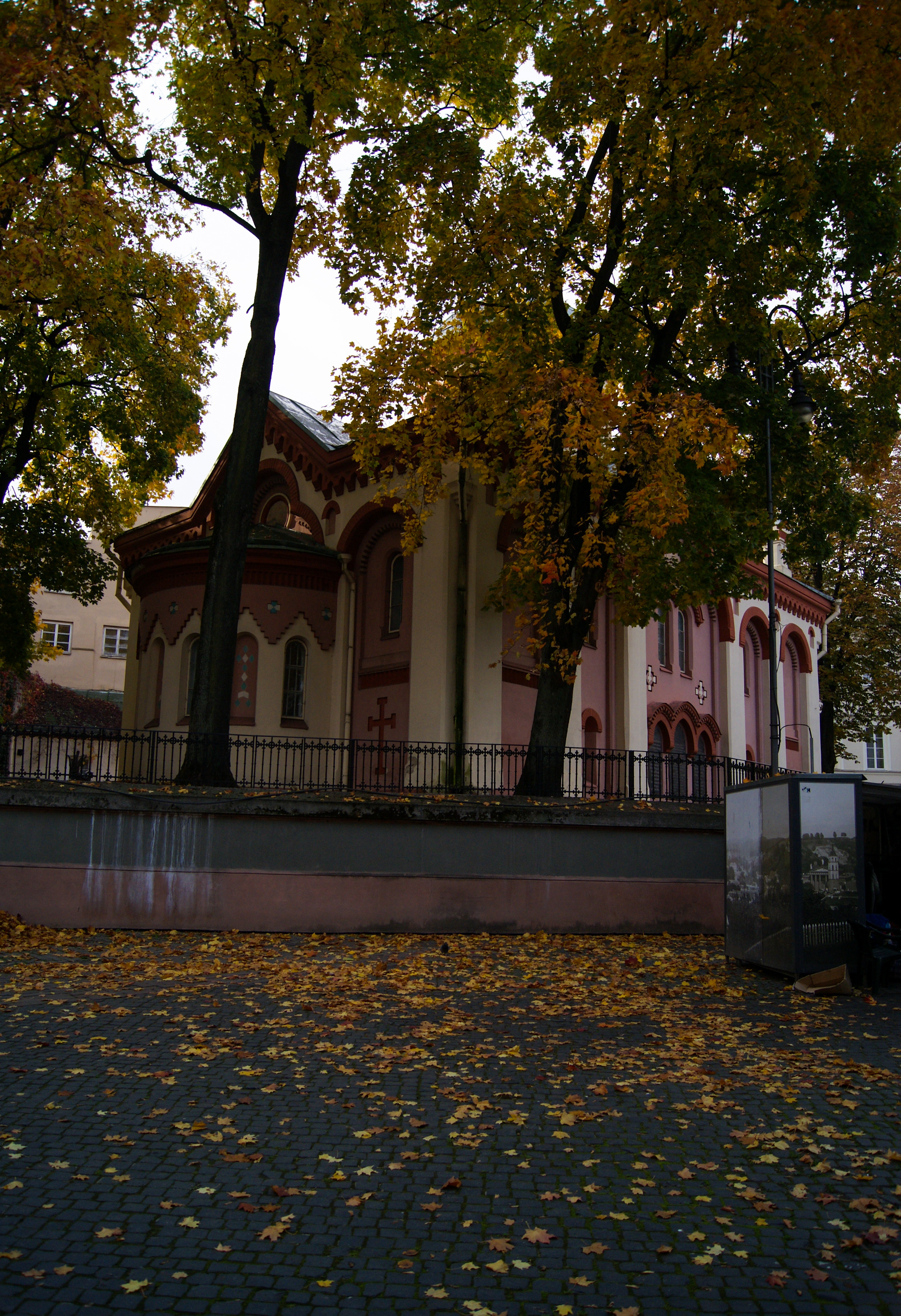 Church of Saint Paraskeva in Vilnius